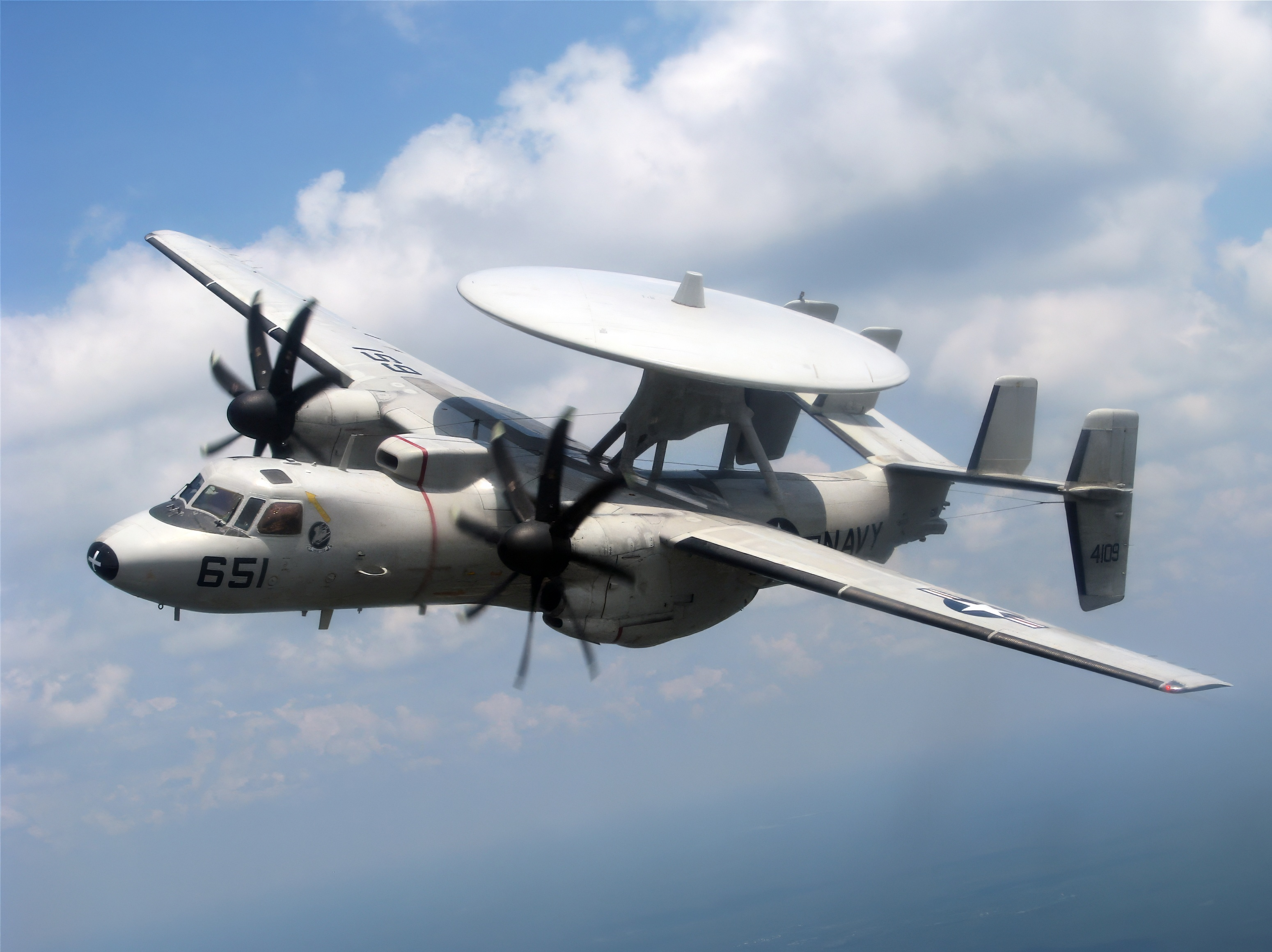 JACKSONVILLE, Fla. (July 13, 2009) An E-2C Hawkeye assigned to the Greyhawks of Carrier Airborne Early Warning Squadron (VAW) 120 flies over Jacksonville, Fla. VAW-120 is based at Naval Station Norfolk, Va. is conducting field carrier landing practice in Jacksonville to prepare for carrier qualifications later this month. VAW-120 operates a detachment of both E-2C and C-2A aircraft from Naval Air Station Jacksonville two weeks before each carrier qualification period. (U.S. Navy photo by Lt. j.g. John A. Ivancic/Released)